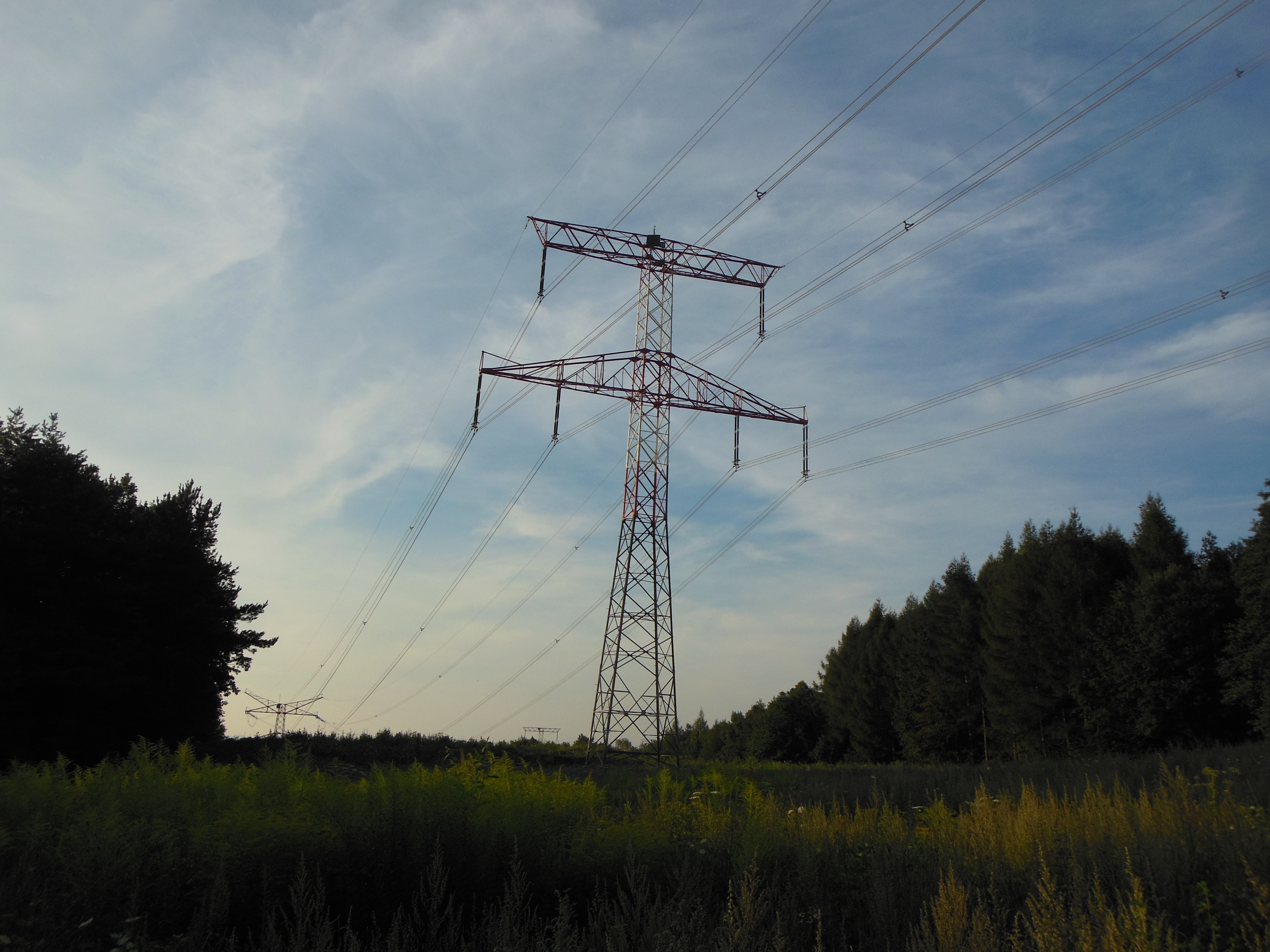 Lines 477 and 478 of Slovenská elektrizačná prenosová sústava with 400 kV AC, east of Ruská Nová Ves, Prešov district, Eastern Slovakia.